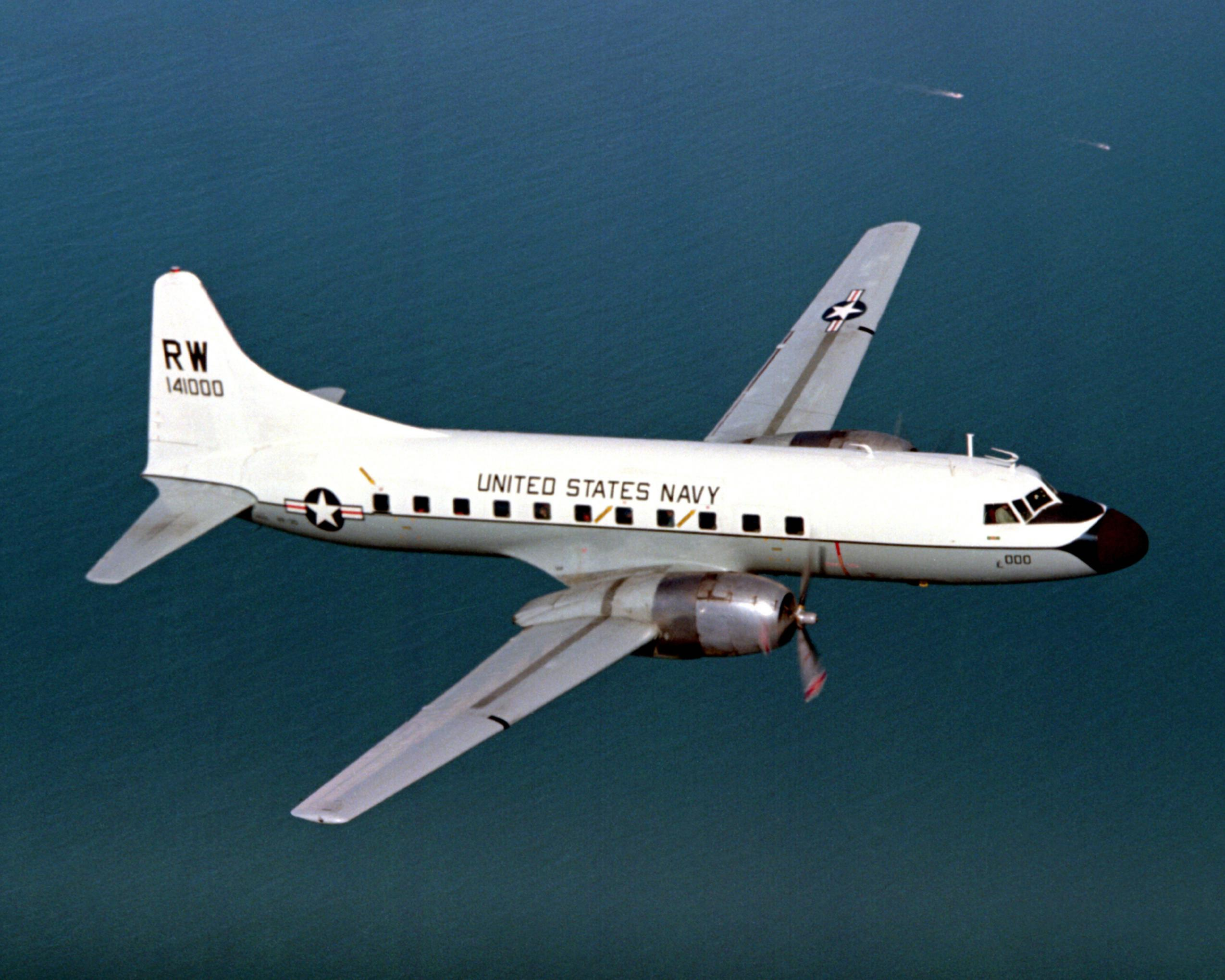 A U.S. Navy Convair C-131F Samaritan (BuNo 141000) from Fleet Tactical Support Squadron VR-30 Providers in flight. This aircraft was retired to the to MASDC as 1G0004 on 25 October 1979.